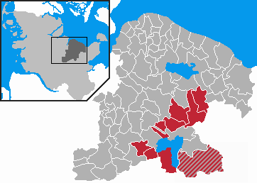 This map shows the area of the Amt (county) Großer Plöner See in the Kreis (district) Plön, Schleswig-Holstein, Germany.